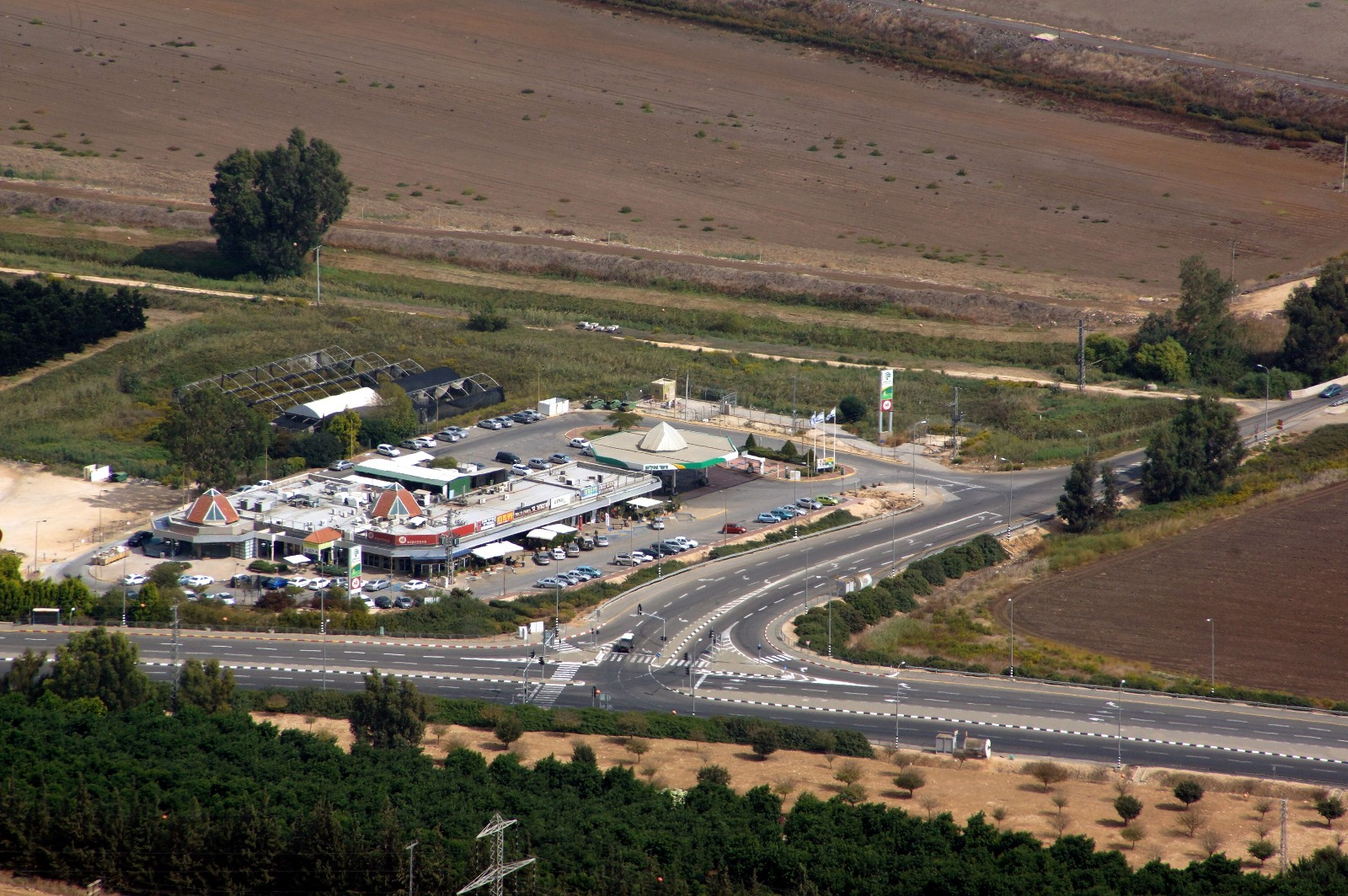 Geography of Israel